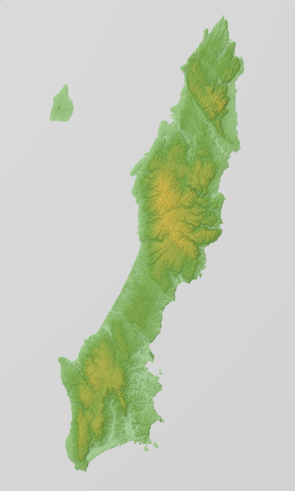 Tanegashima and Mageshima in Kagoshima Prefecture, Japan.